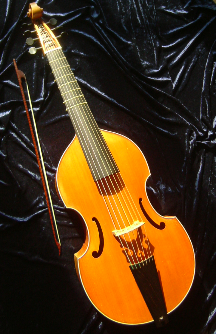 Bassviol (Viola da Gamba), 7 strings, Uilderks